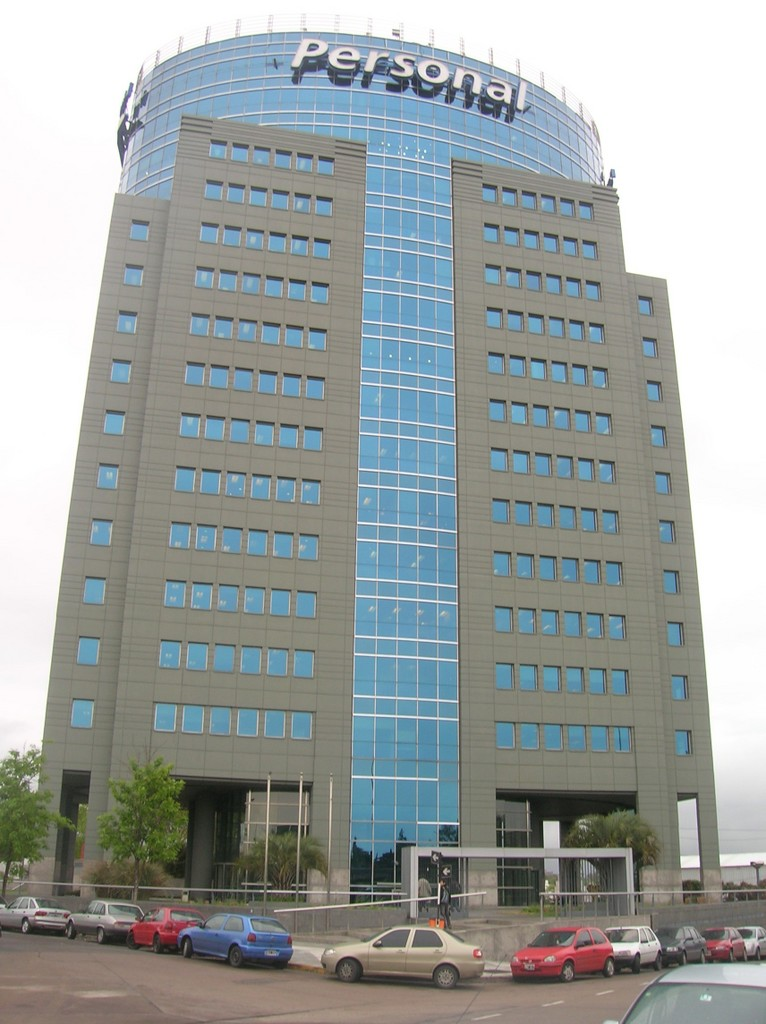 The Panamericana Plaza building (Saavedra neighborhood, Buenos Aires). Designed by Lier & Tonconogy in 1995, and completed in 1997.